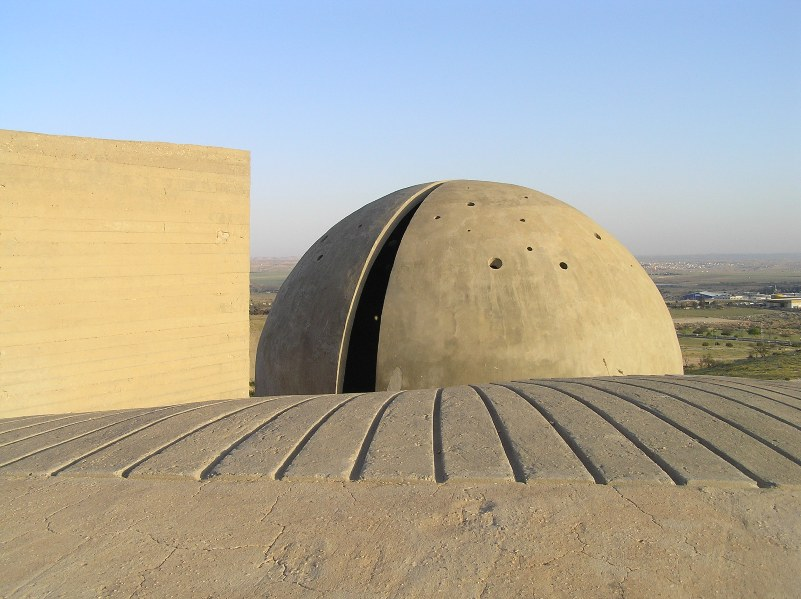 "Monument to the Negev Brigade" by Dani Karavan - the memorial dome photographed by Eman, April 2006